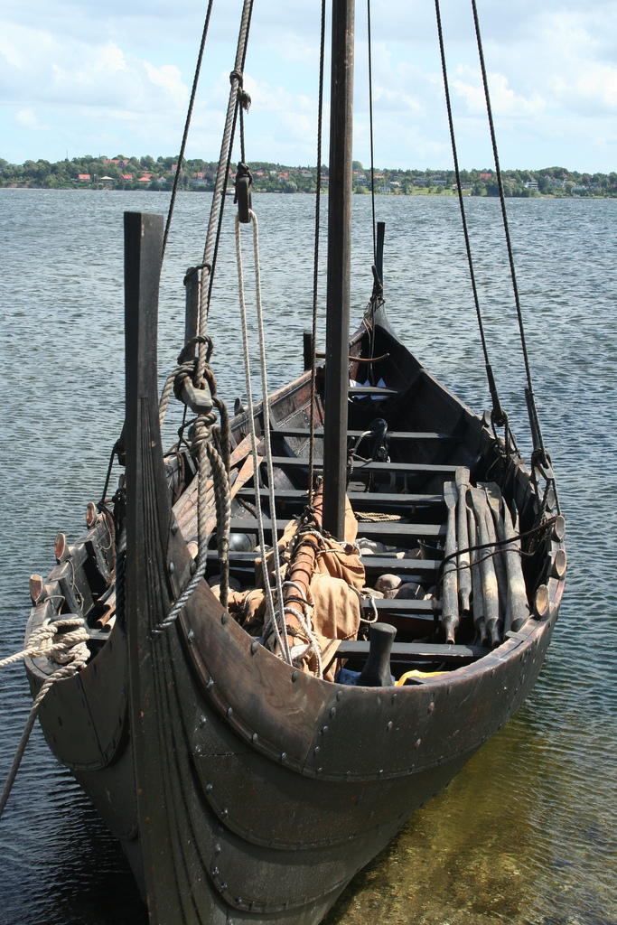 The reconstructed viking ship KRAKA FYR beached in Roskilde Fjord in Denmark